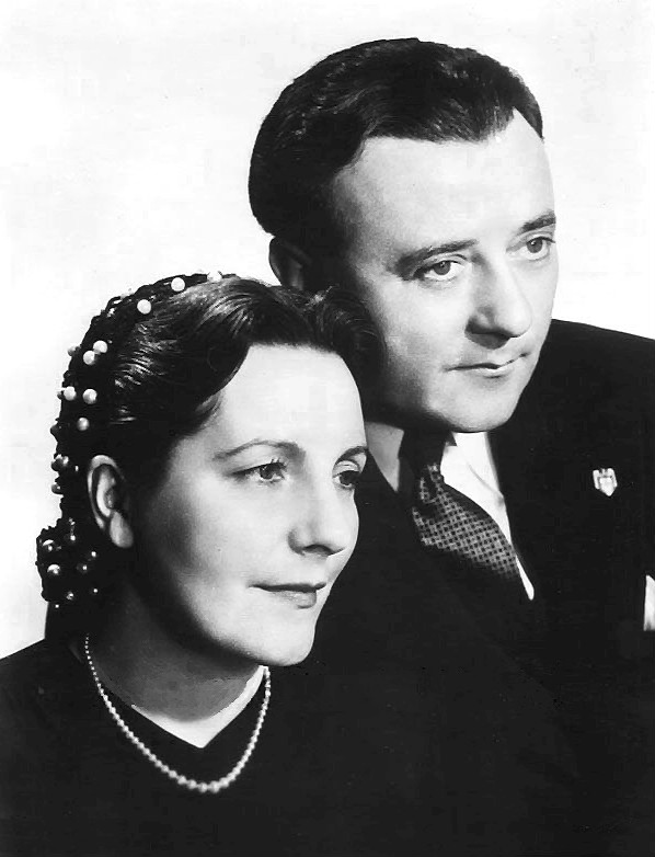 Photo of Ethel Bartlett and Rae Robertson from The Kingsport Times-News February 18, 1951 page 25.